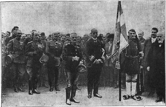 Presentation of regimental colours to a newly-formed unit of the Government of National Defence at Thessaloniki in late 1916. In the foreground: 2nd from left, General Miliotis-Komninos, 3rd from left General Zymvrakakis, center left General Panagiotis Danglis, center right Admiral P. Kountouriotis, far right, Eleftherios Venizelos. Original caption: Présentation d'un drapeau offert aux troupes Vénizelistes par les dames de Salonique.